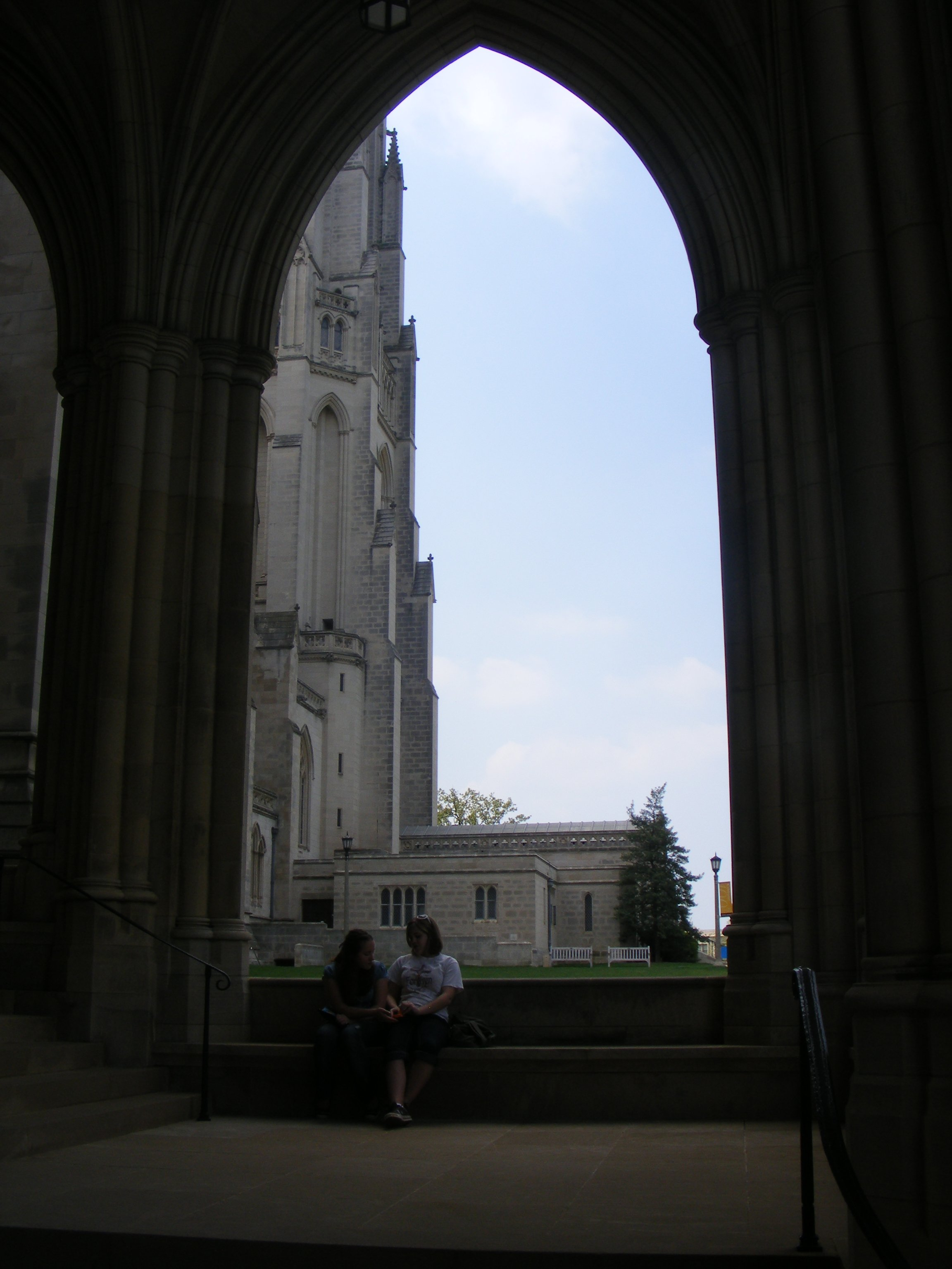 National Cathedral